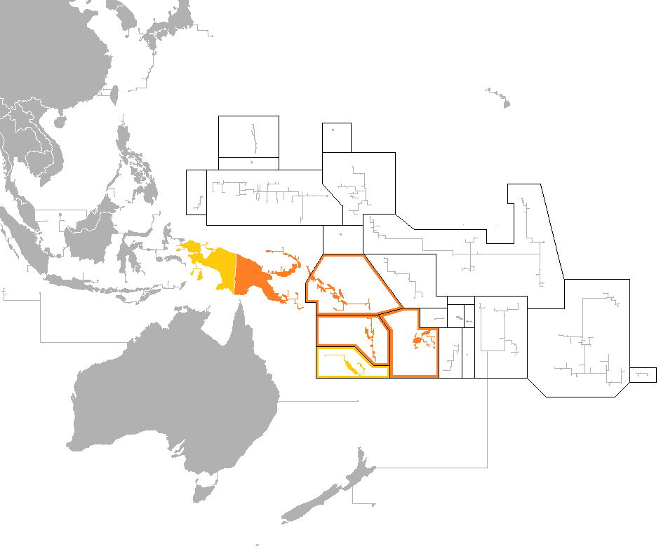 Map showing sovereignty of islands of Melanesia Sovereign Nations Dependant Territories